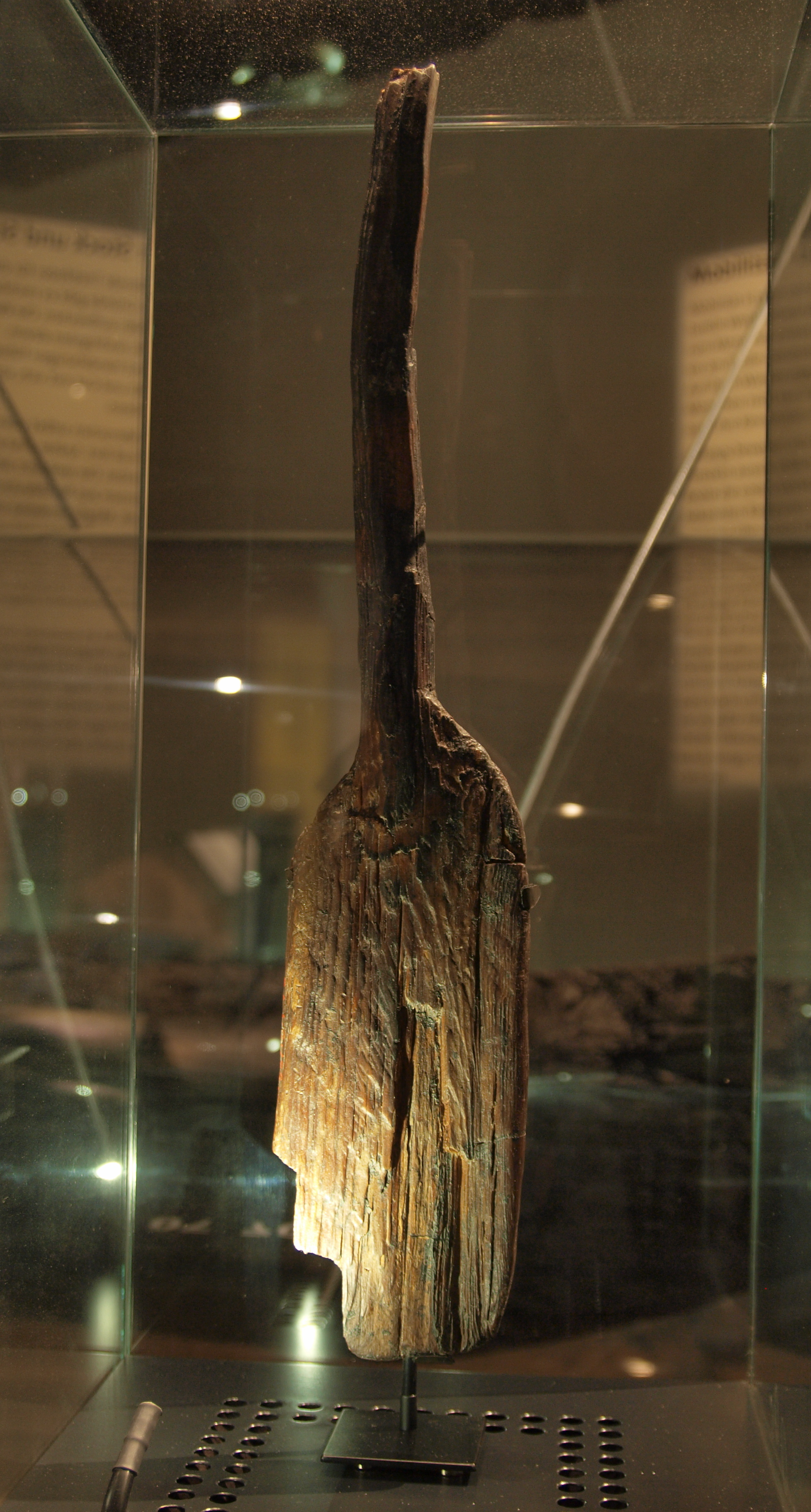 Paddle of Duvensee, Landkreis Herzogtum Lauenburg, Lower Saxony, Germany. Dating around 6.200 B.C. One of the world's oldest surviving wooden paddles.. Photographed at Archäologischen Museum Hamburg | Helms Museum Hamburg-Harburg, Germany. Length: 520 mm (20.47 in); Width: 182 mm (7.16 in); Vertical depth: 35 mm (1.37 in)